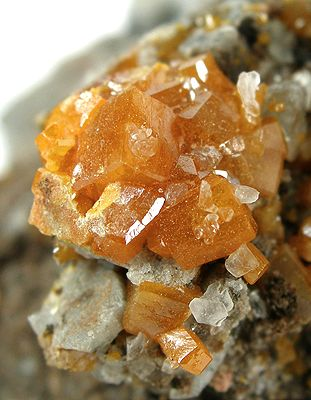 Wulfenite Locality: Hull Mine, Hull Mine group (Rialto Mine group; Hull group of claims; Rialto claims), Buckeye vein group, Castle Dome Mine group, Kofa Game Range, Castle Dome District, Castle Dome Mts, Yuma County, Arizona, USA (Locality at ) Size: 5.6 x 5.3 x 3.6 cm. Nothing fancy, just small crystals here - but from a very rare and hard to collect old locality. From the well-known Tucson collection of 40-year collector, Harold Urish.